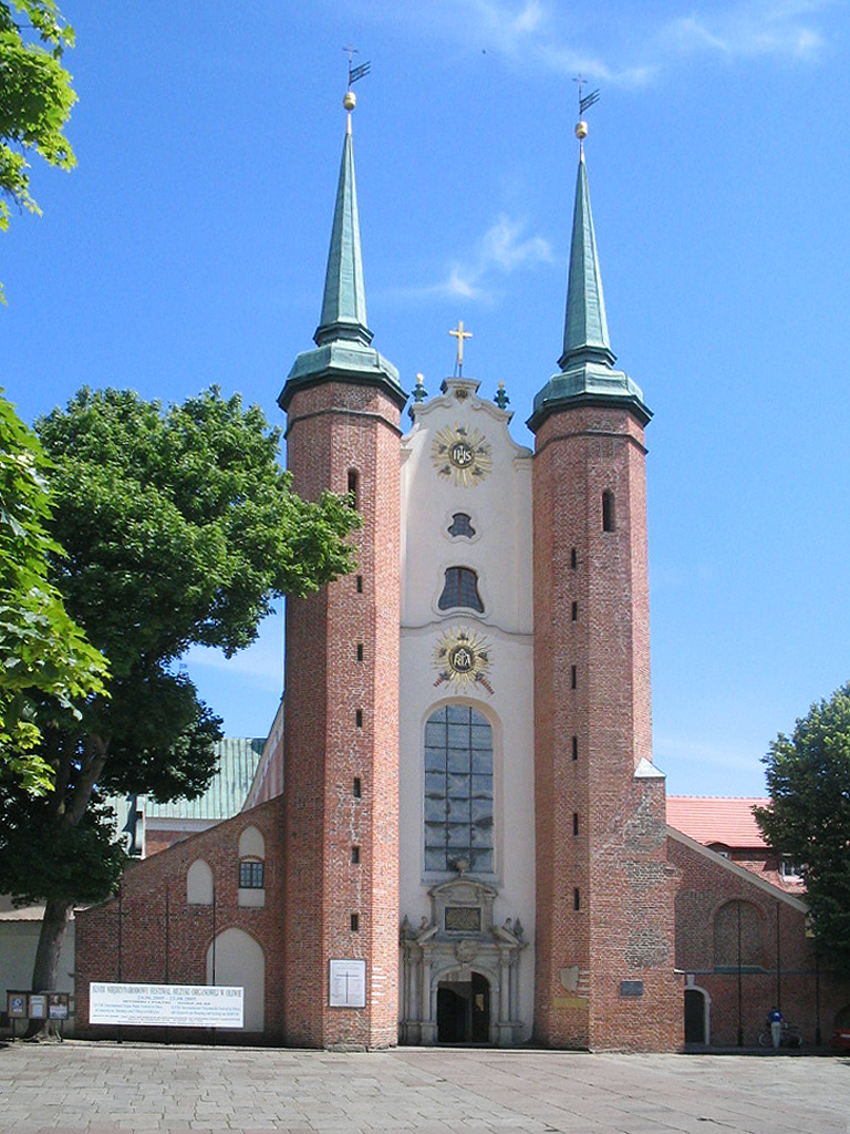 Cathedral in Gdańsk-Oliwa, Poland